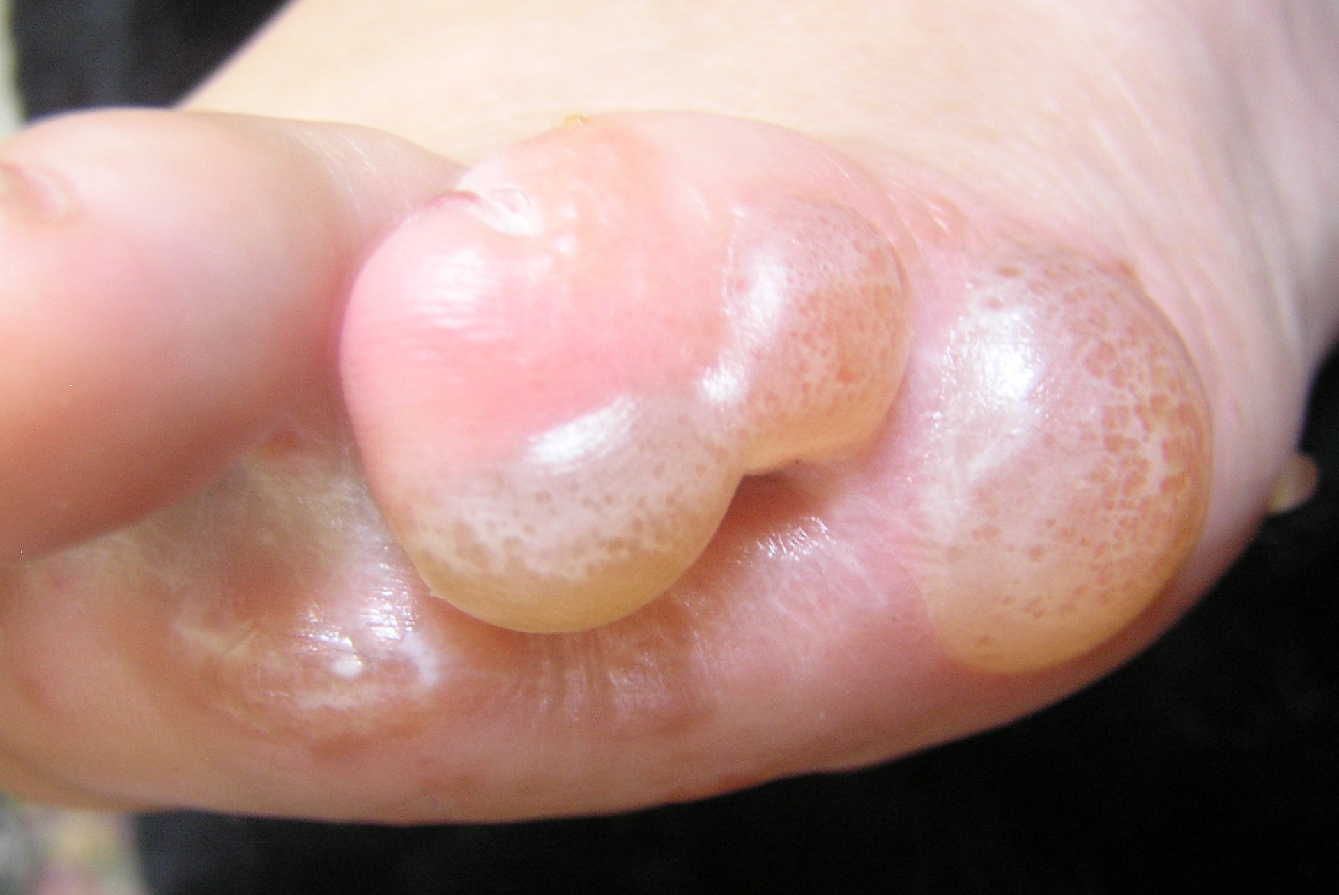 This is a foot in the advanced stages of dyshidrotic eczema otherwise known as pompholyx (pedophompholyx for when its found on the foot).